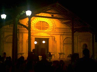 main entrance of the church in San Javier, Ñuflo de Chávez, Santa Cruz, Bolivia. Part of the Jesuit Missions of the Chiquitos World Heritage Site.